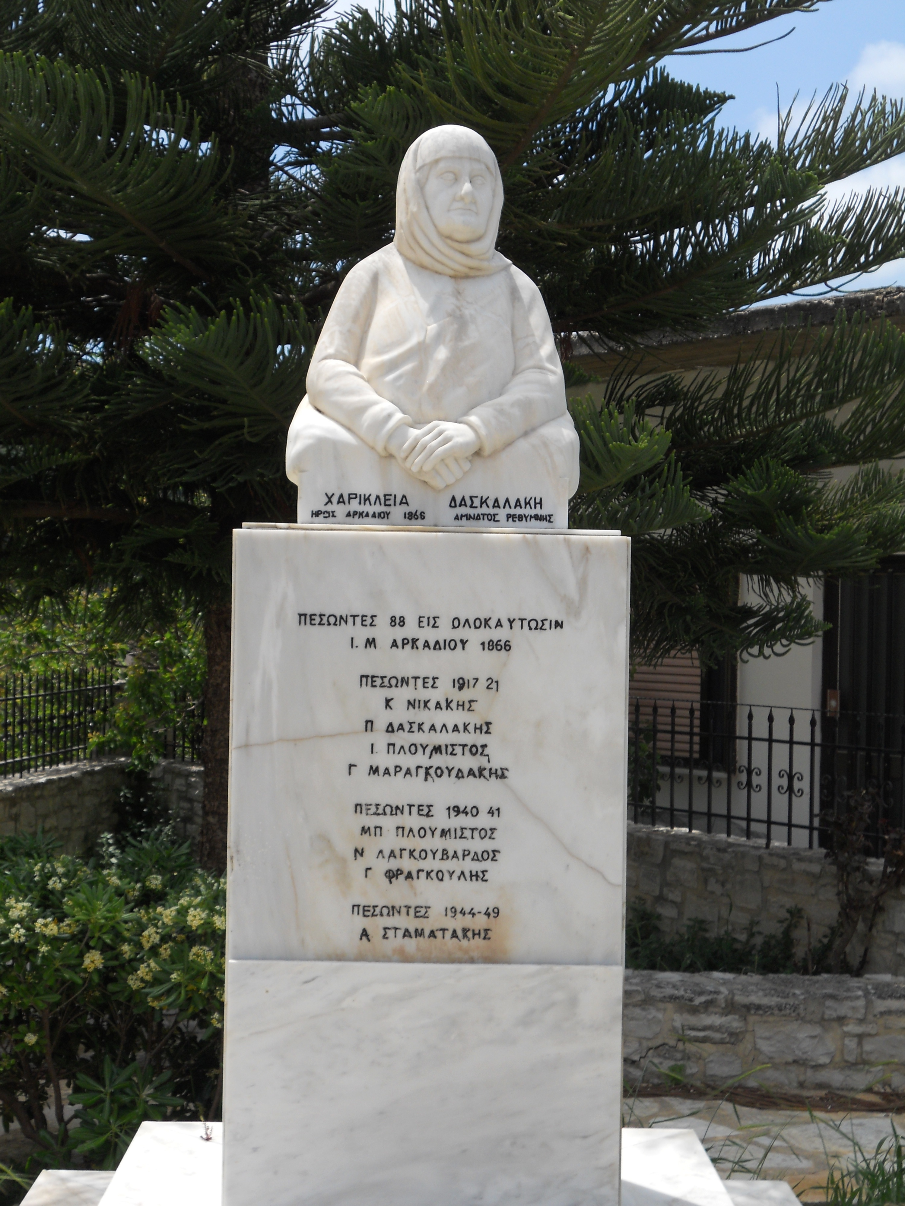 Charikleia Daskalaki statue, amnatos